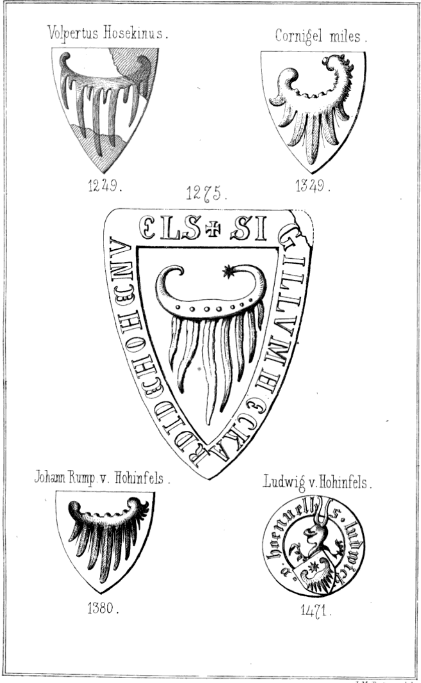 Coats of arms of the House of Hohenfels (Hessen).